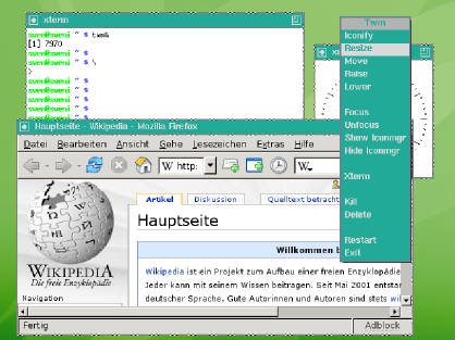 Programs with TWM